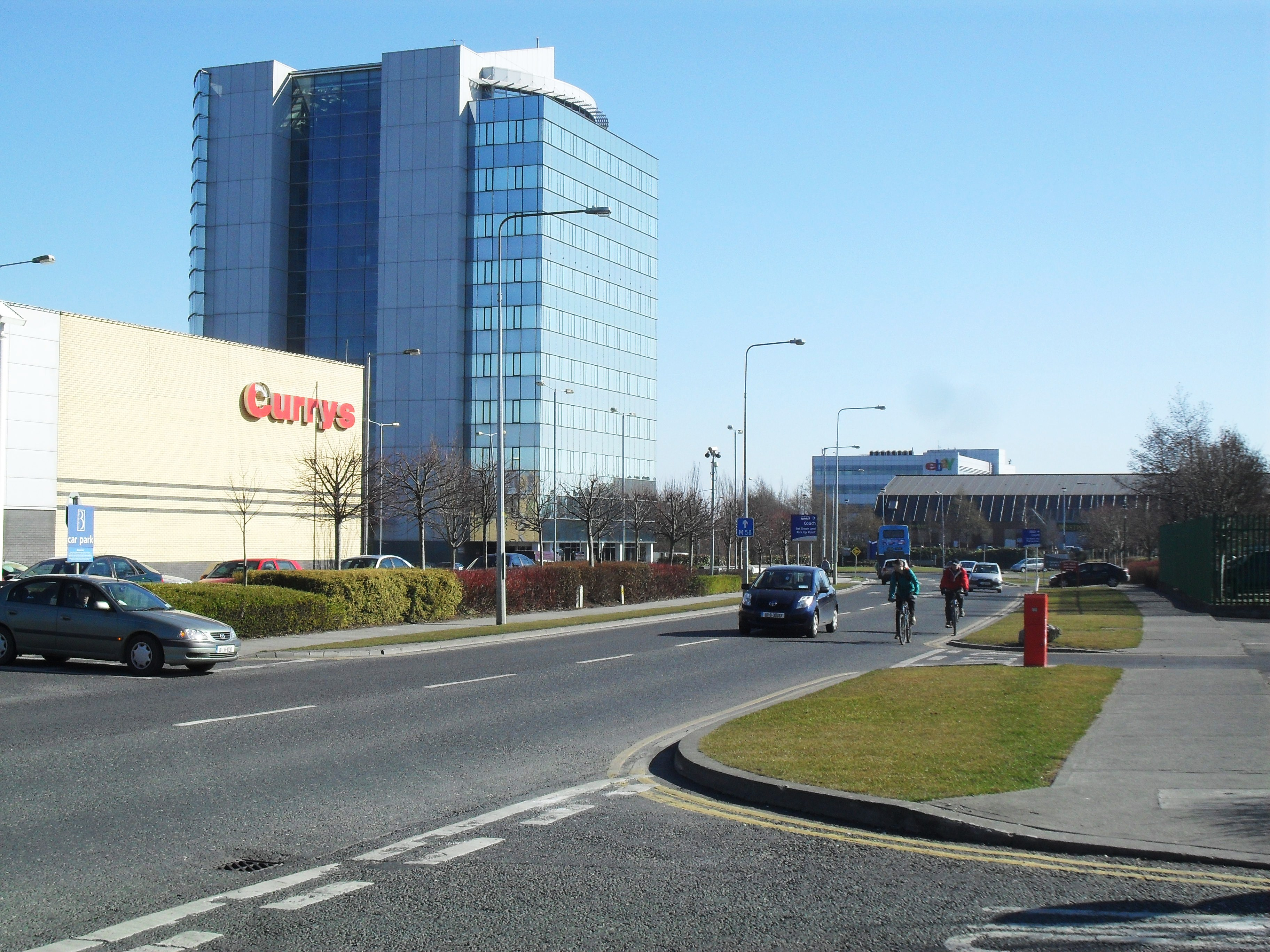 Road at Blanchardstown Centre This is the north-eastern section of the road that surrounds the shopping centre - view towards Blanchardstown village.